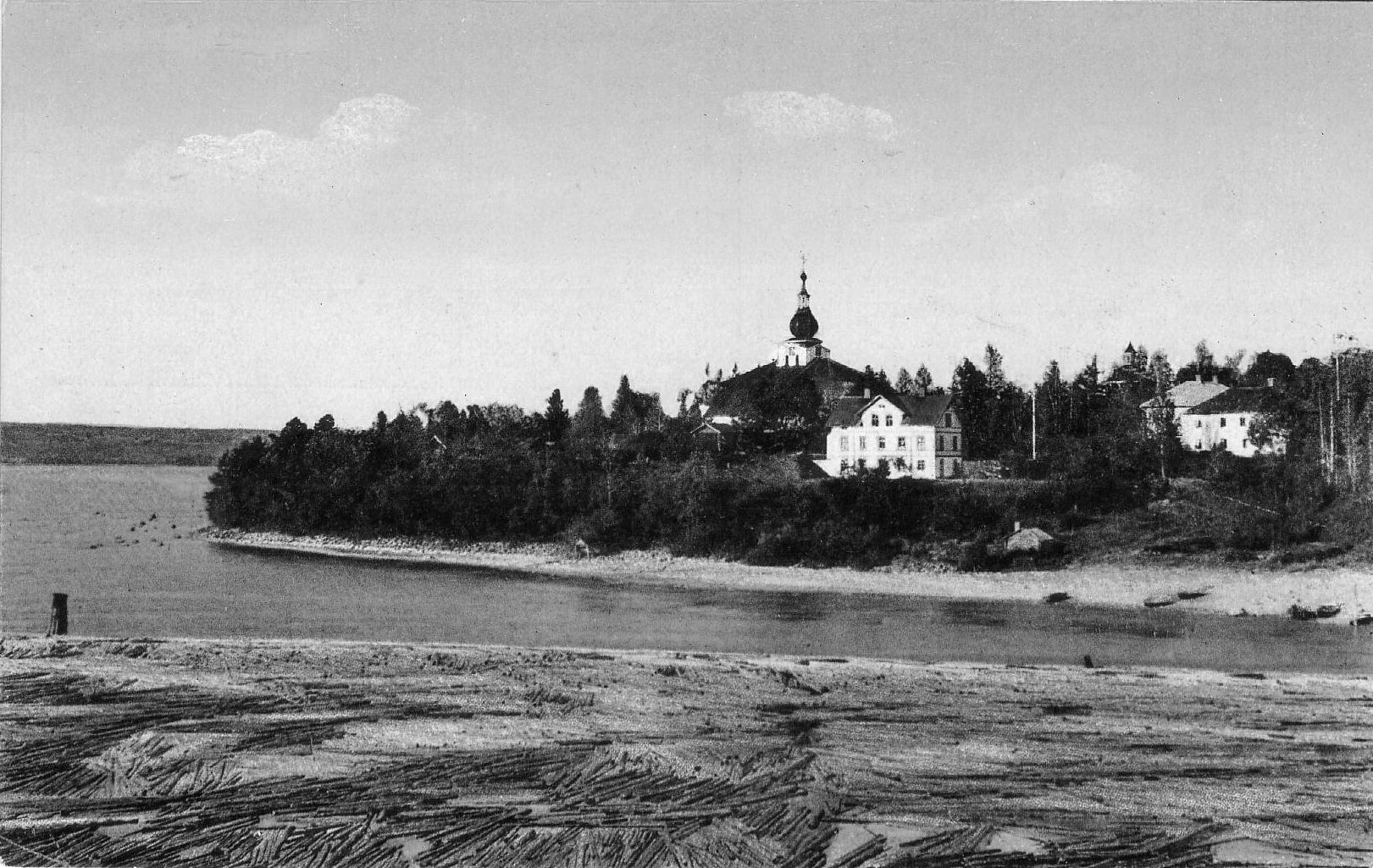 Float of timber in the river Dalälven in Sweden, in the beginnig of the 20th century